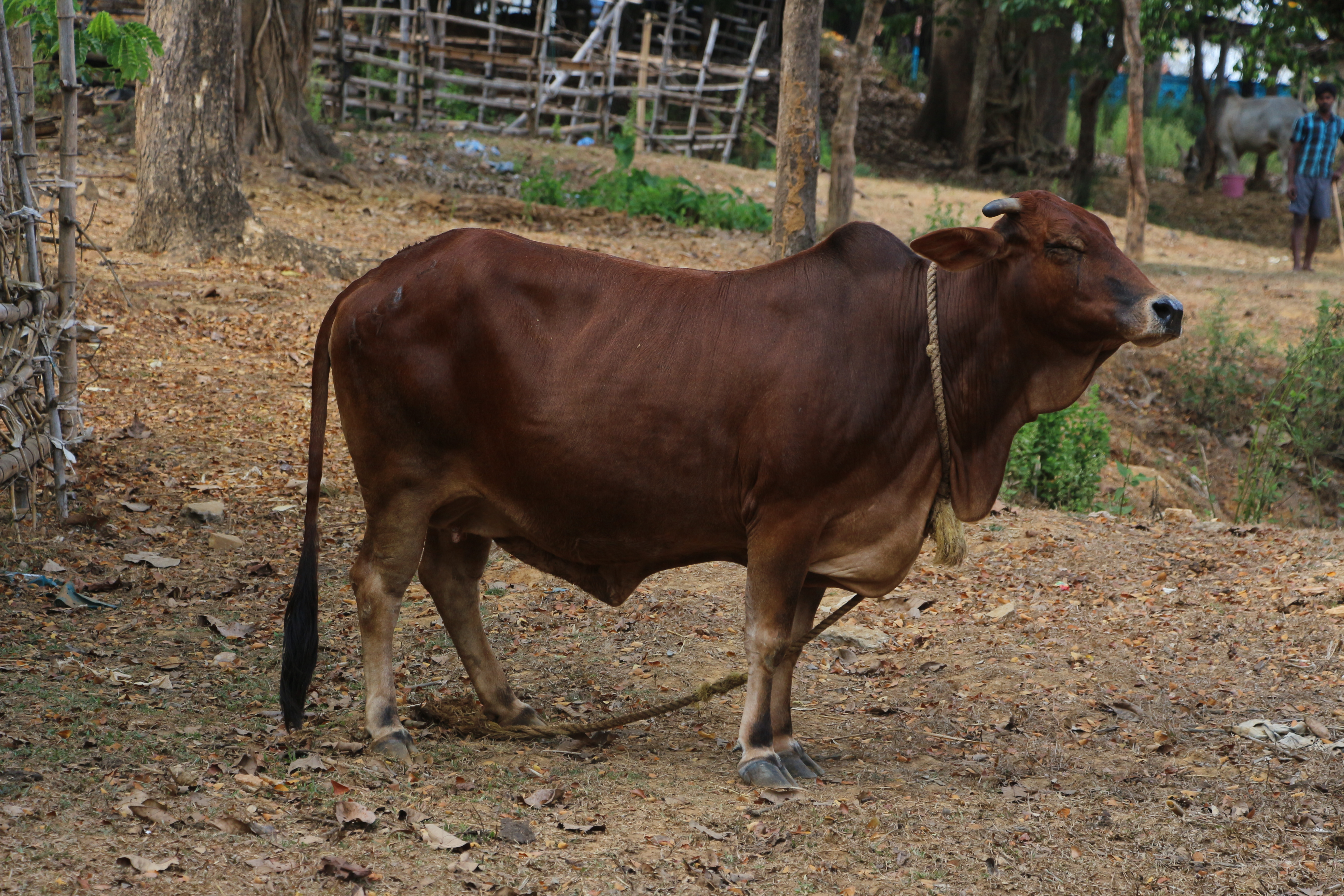 Indian cow breed Sahiwalaಕನ್ನಡ: ಭಾರತೀಯ ಗೋತಳಿ ಸಾಹಿವಾಲ